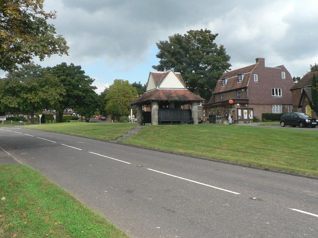 Sedlescombe: The Green The post office can be seen on the other side of The Green.